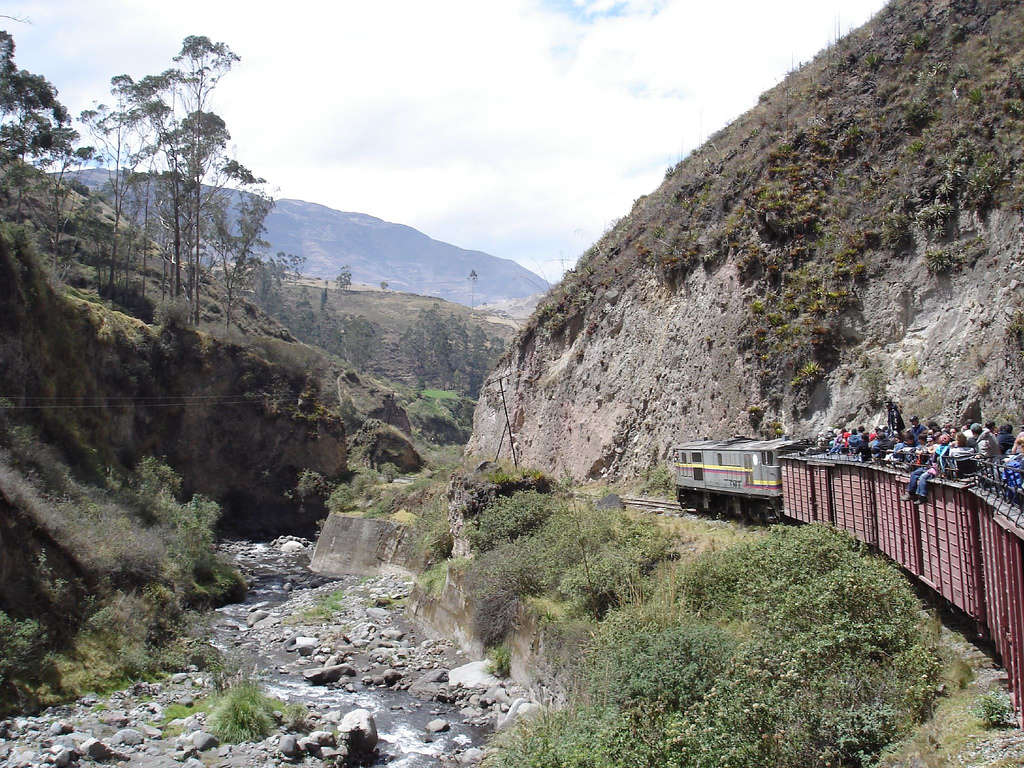 View from a roof of a train in Ecuador near the Devil's Nose mountain.